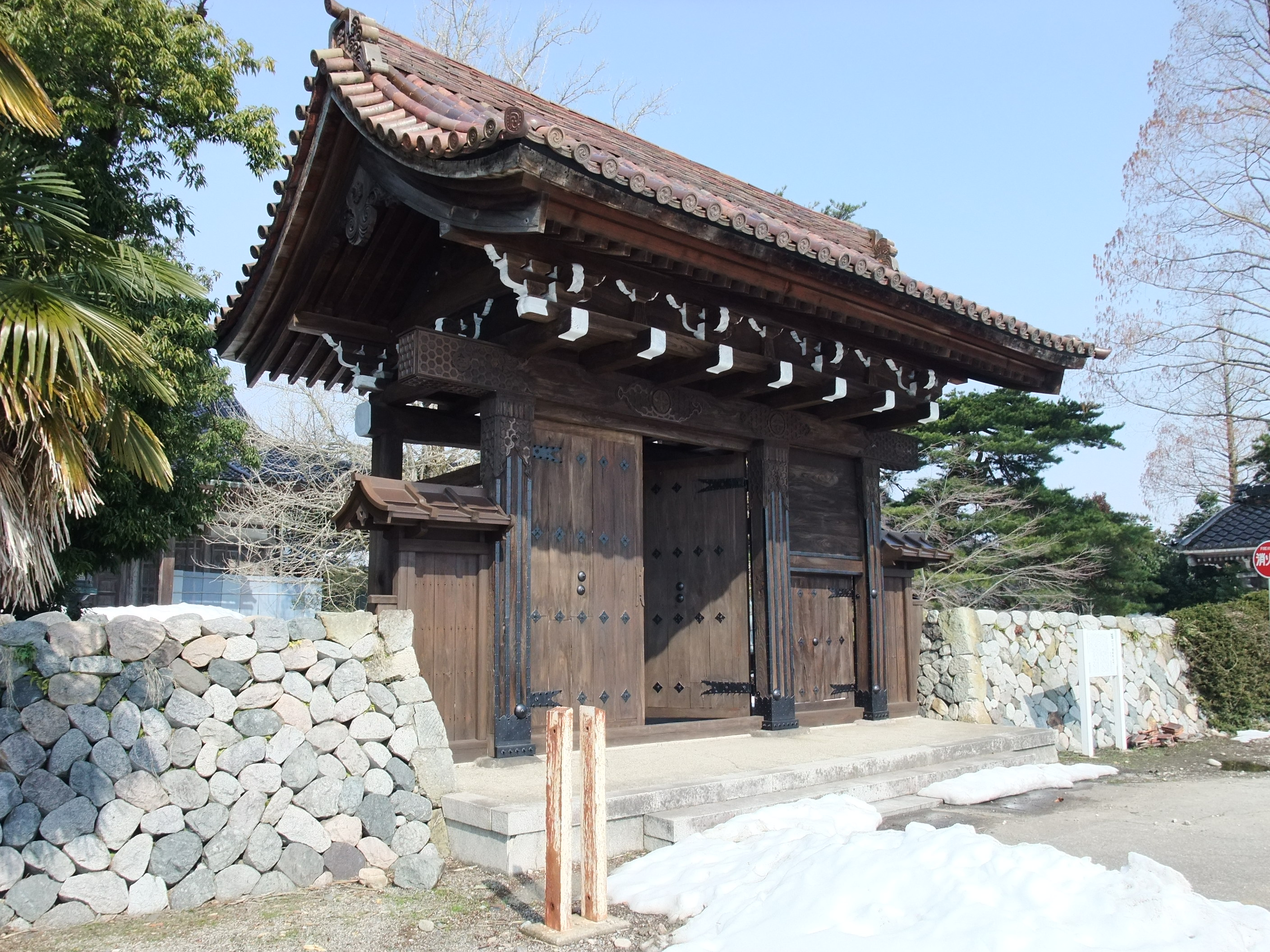 photo of manpukuji sanmon (Toyama Japan)